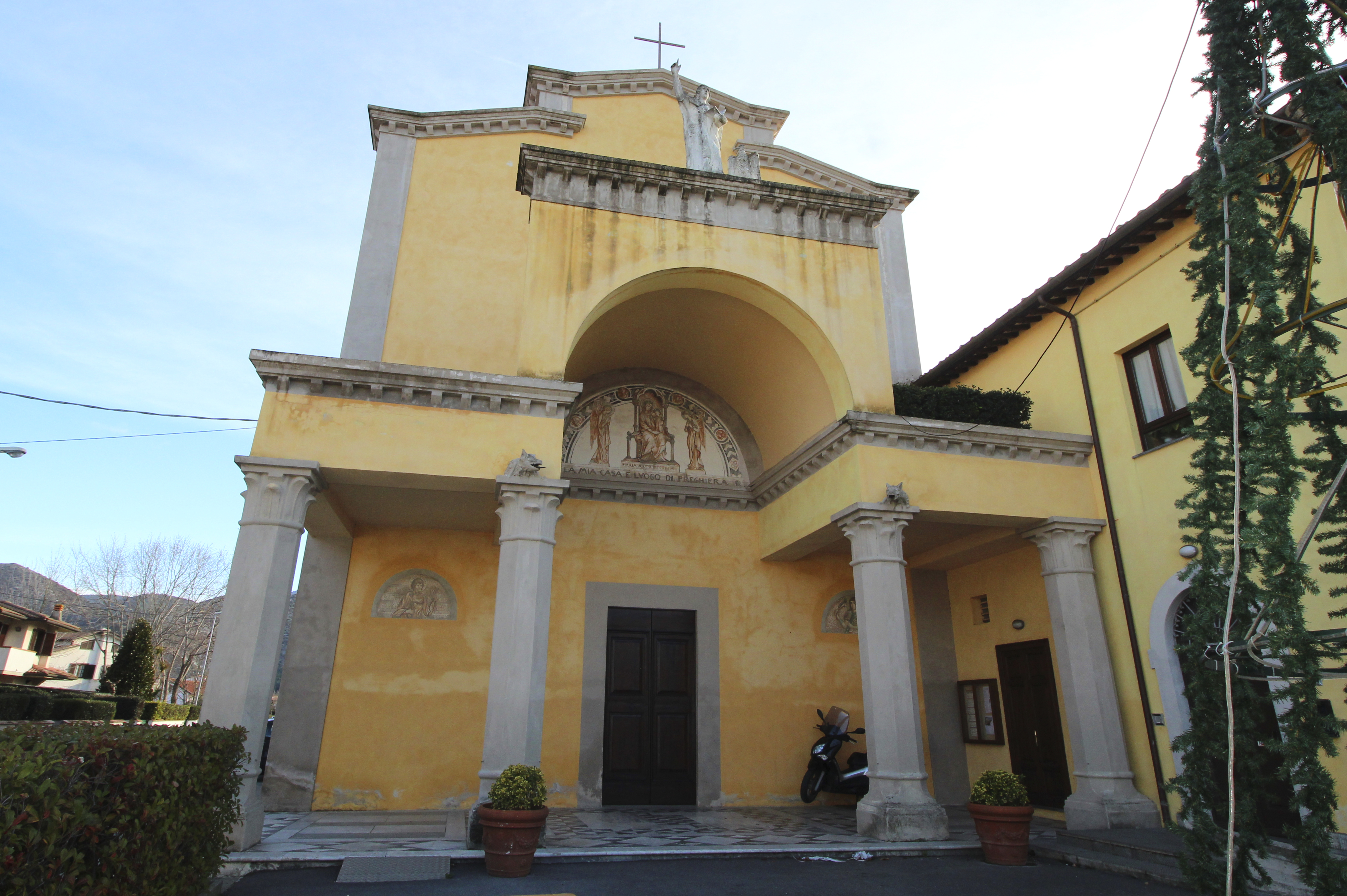 Church San Giovanni Evangelista, Gello, hamlet of San Giuliano Terme, Province of Pisa, Tuscany, Italy